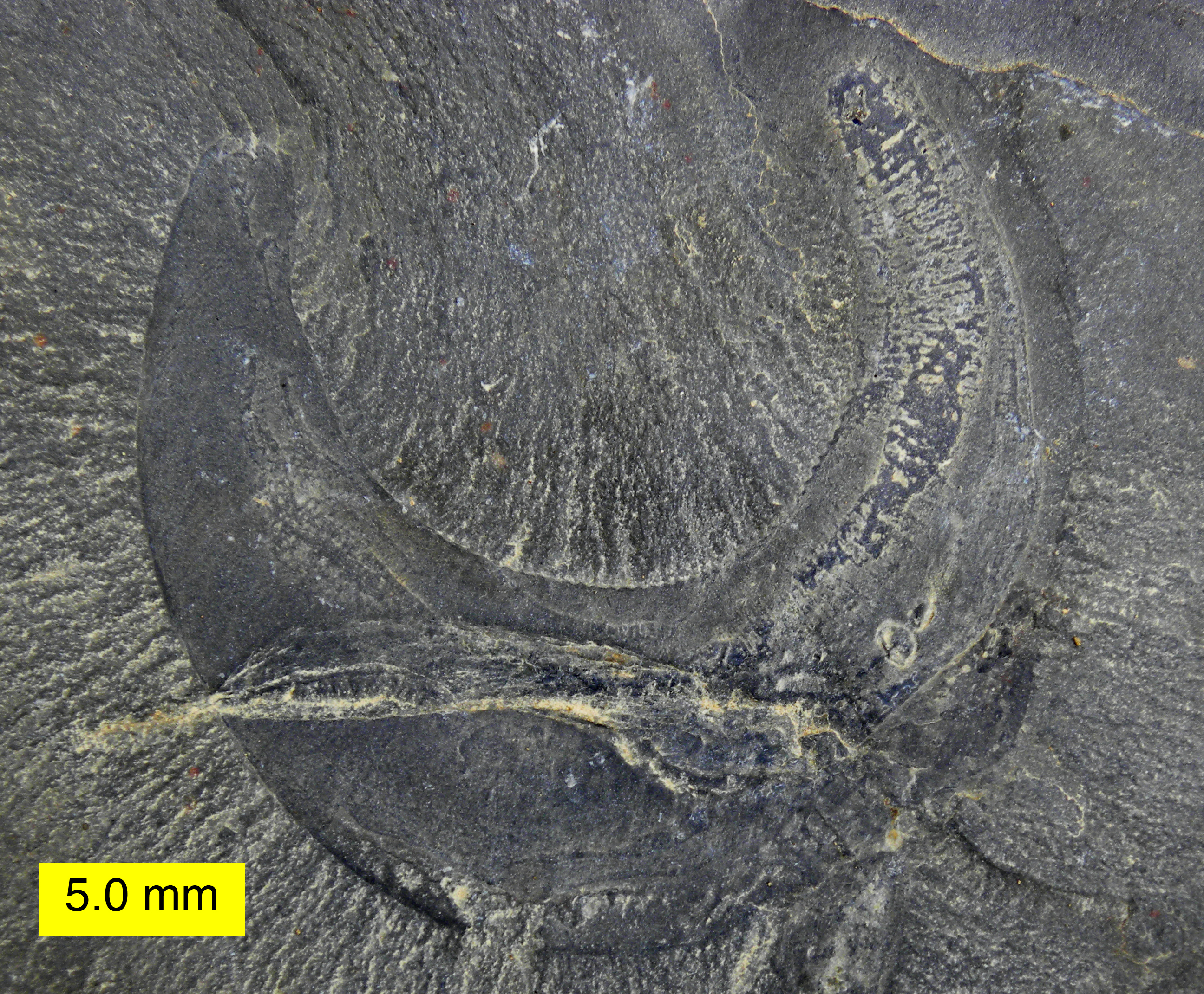 Ottoia prolifica from the Walcott Quarry of the Burgess Shale (Middle Cambrian) near Field, British Columbia, Canada.